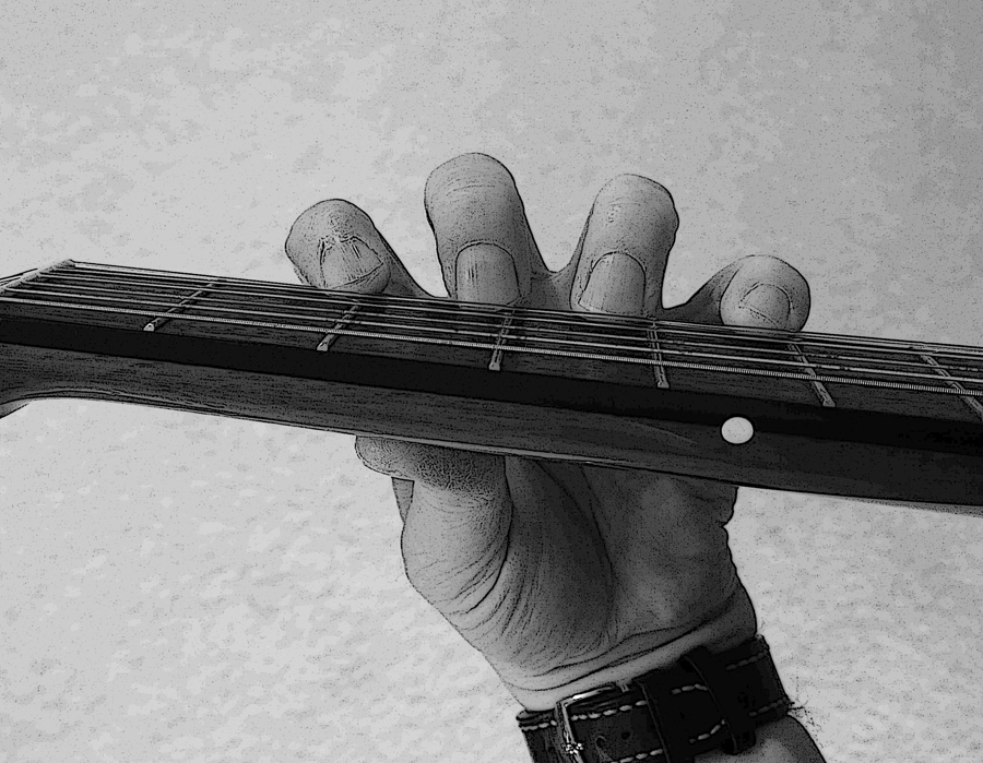 Classical Guitar Left Hand 2